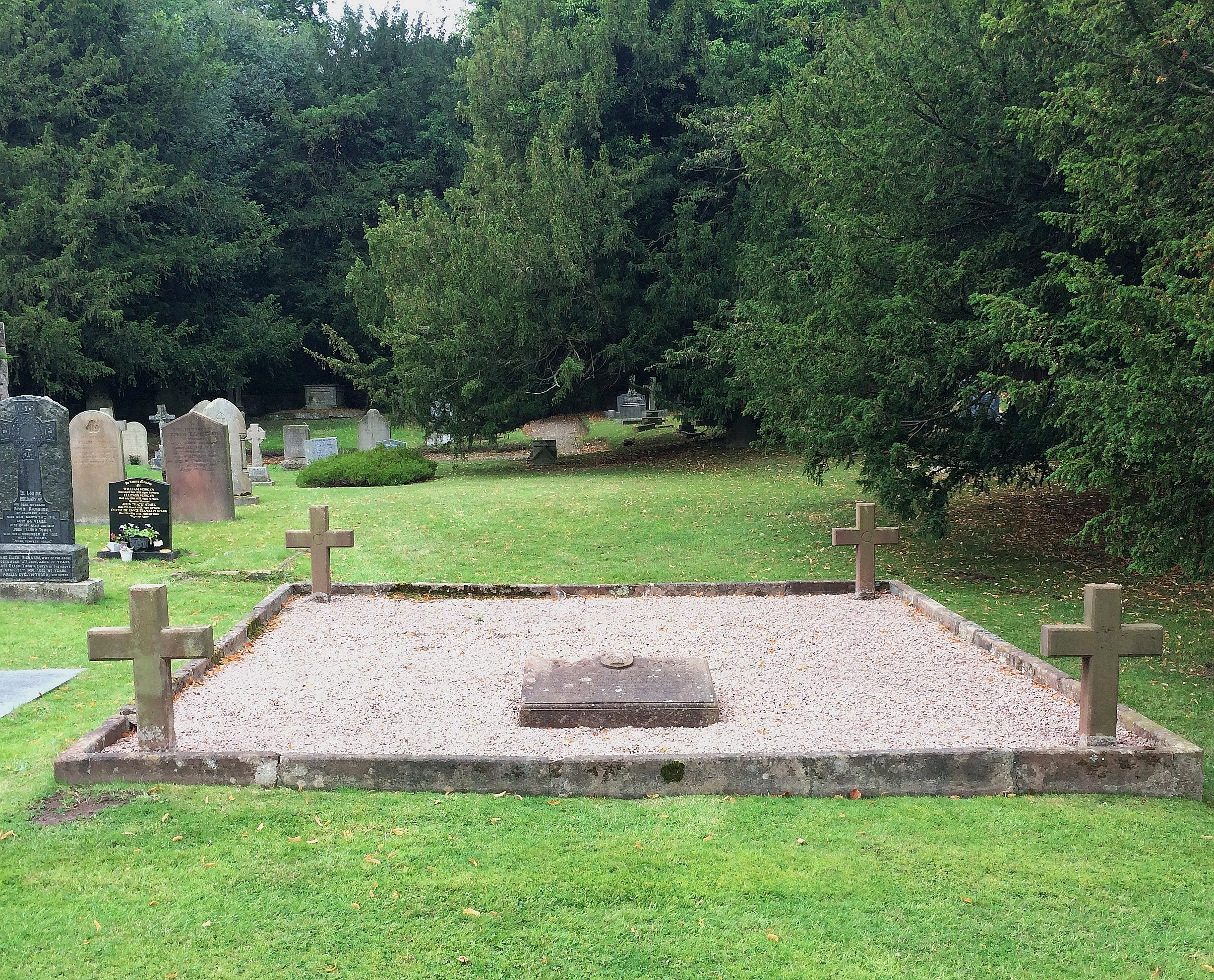 St Mary's Church Eccleston, Old Churchyard - this enclosure in the northeast part of the Old Churchyard, now covered with gravel and surrounded by a low wall with crosses in the corners, marks the spot where the Grosvenor family vault was located within the old parish church.